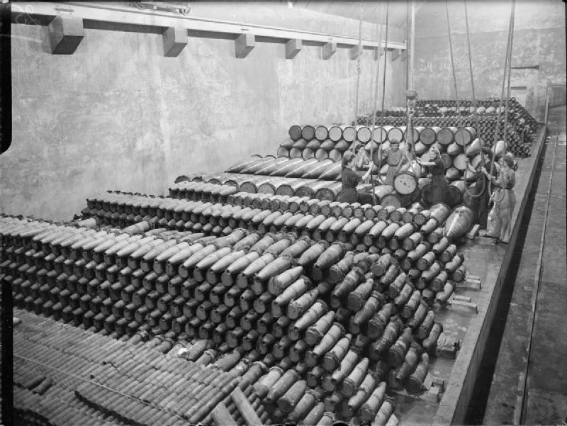 The Royal Navy during the Second World War Inside Magazine Number 16 at the Royal Naval Armament Depot Dean Hill, near Romsey on the Hampshire - Wiltshire border. Female workers use the traversing cranes to stack large naval shells. Many different types of naval shell were stored in this magazine. Note the narrow gauge railway lines to the right of the image used to transport the munitions around the depot.